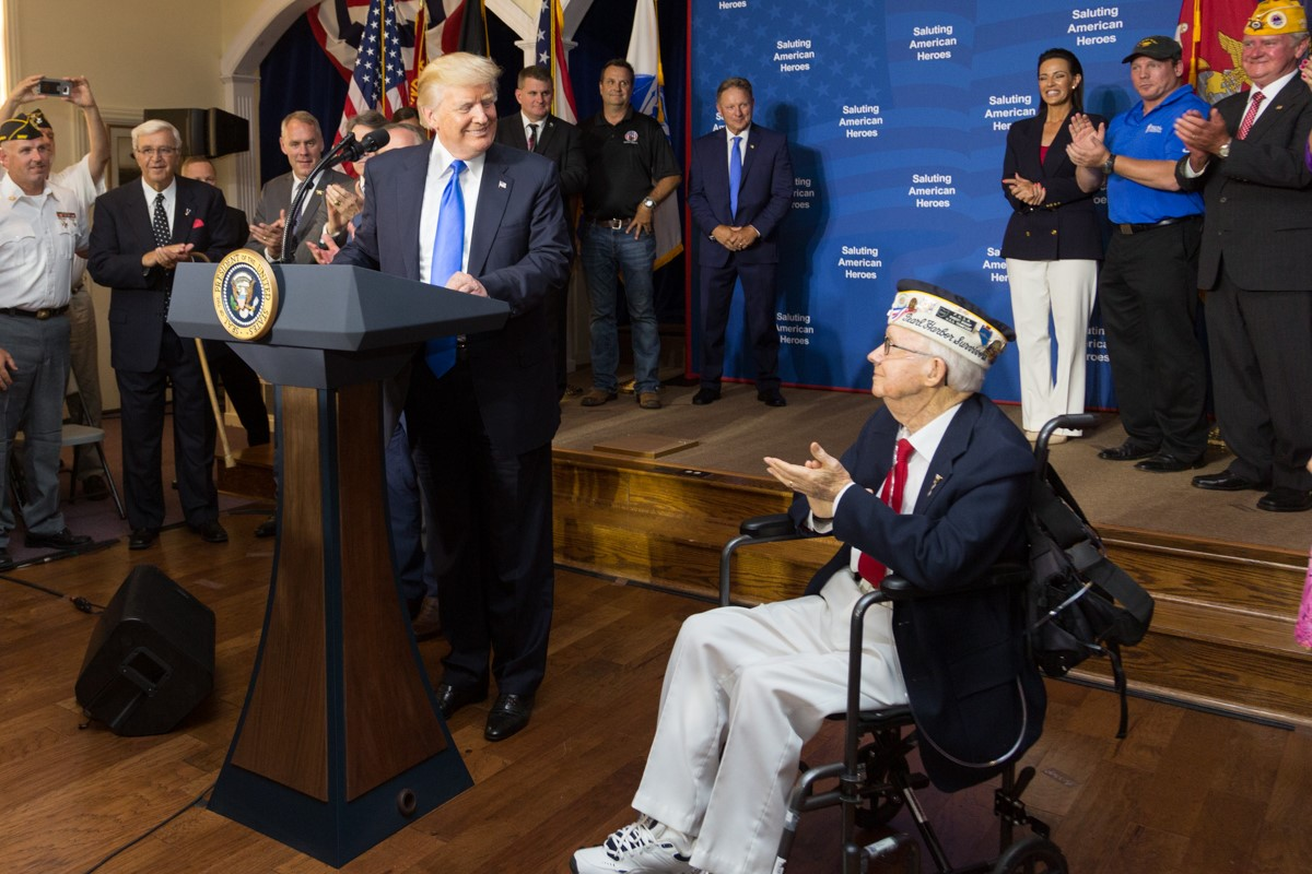 President Donald J. Trump honors veteran Bob Bishop at the AMVETS Post 44 Salute to American Heroes | July 25, 2017 (Official White House Photo by Shealah Craighead)